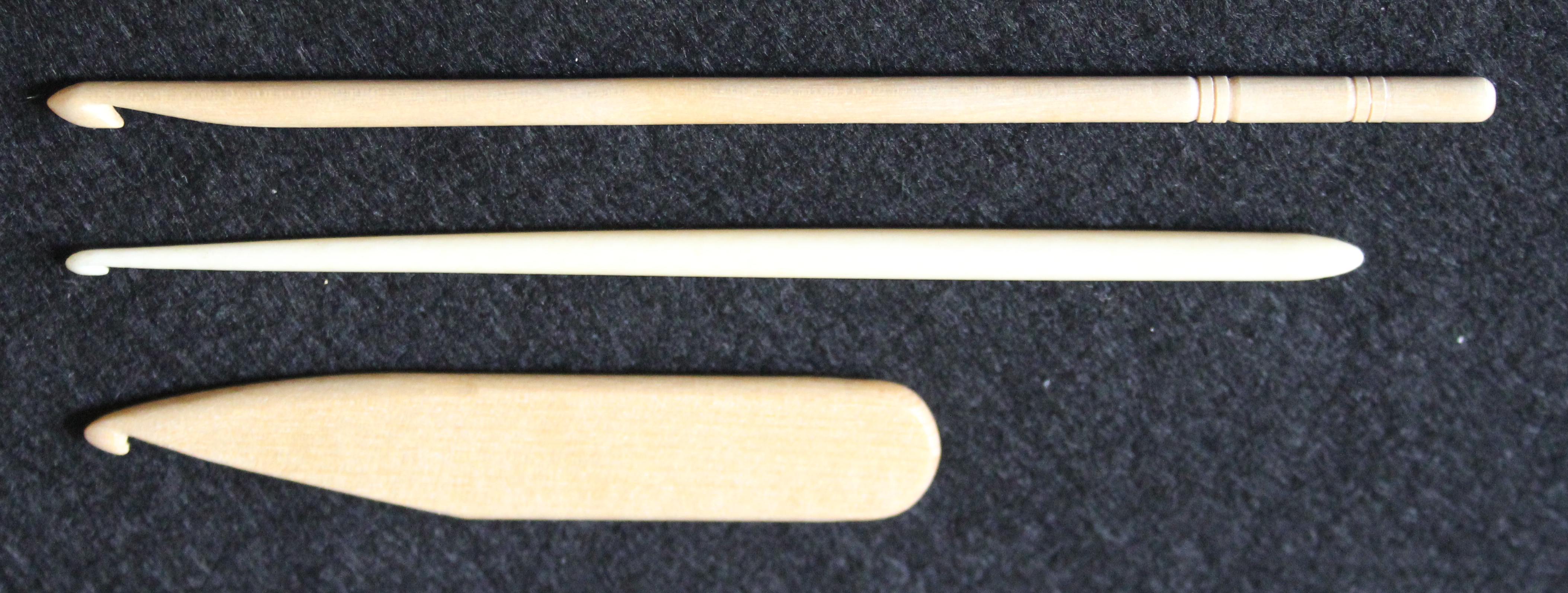 Shepherd's hook, tapered crochet hook, inline crochet hook9 or10